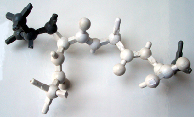 molecular model of small peptide